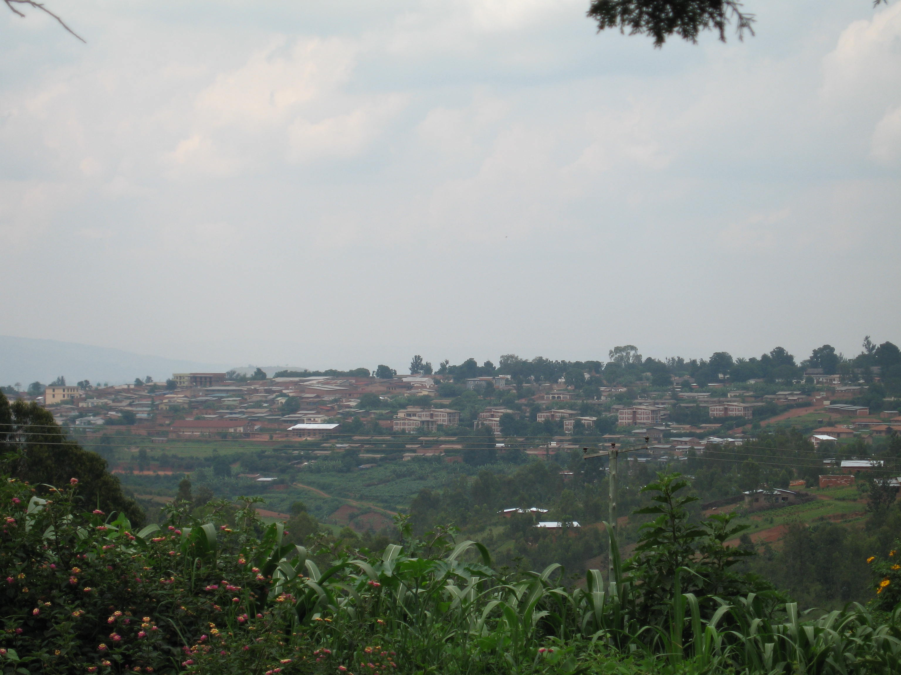 Panoramic view of Gitega taken from the suburb of La Mushasha. Burundi.